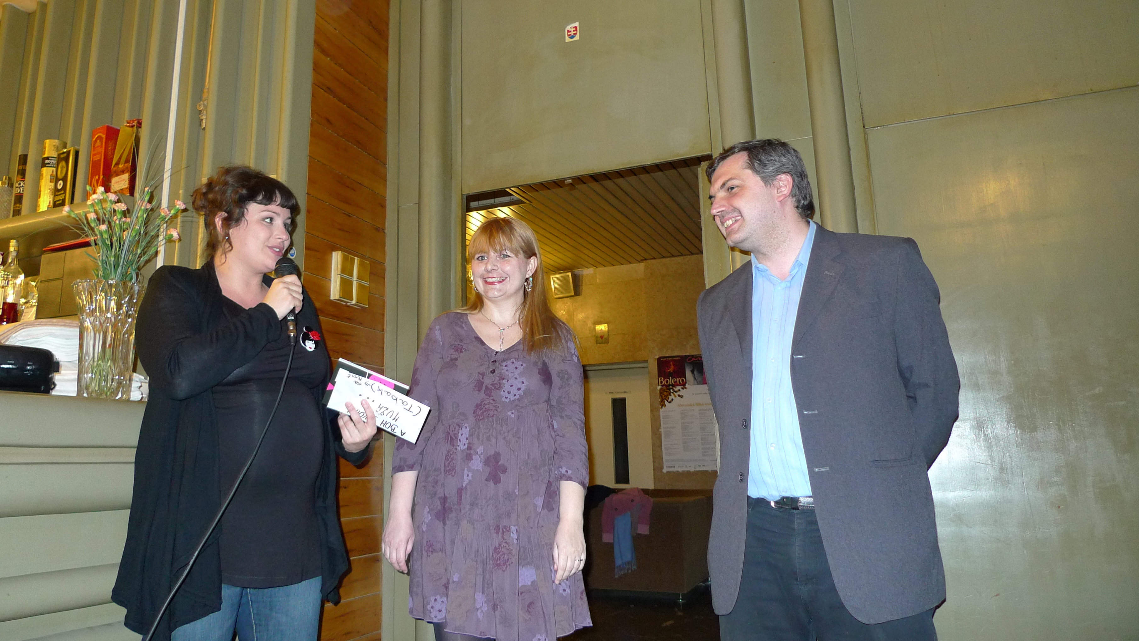 Presentation of the book "A boh stvoril muža" (And God Created Man), the Writer's Club, 2, Laurínska Street, Bratislava Slovakia. From the left Petra Polnišová (a Slovak actor and the godmother of the book), Barbara Pribylincová (a Slovak writer and the author of the book) and Roman Michelko (a Slovak writer and the director of the publishing house that published the book).